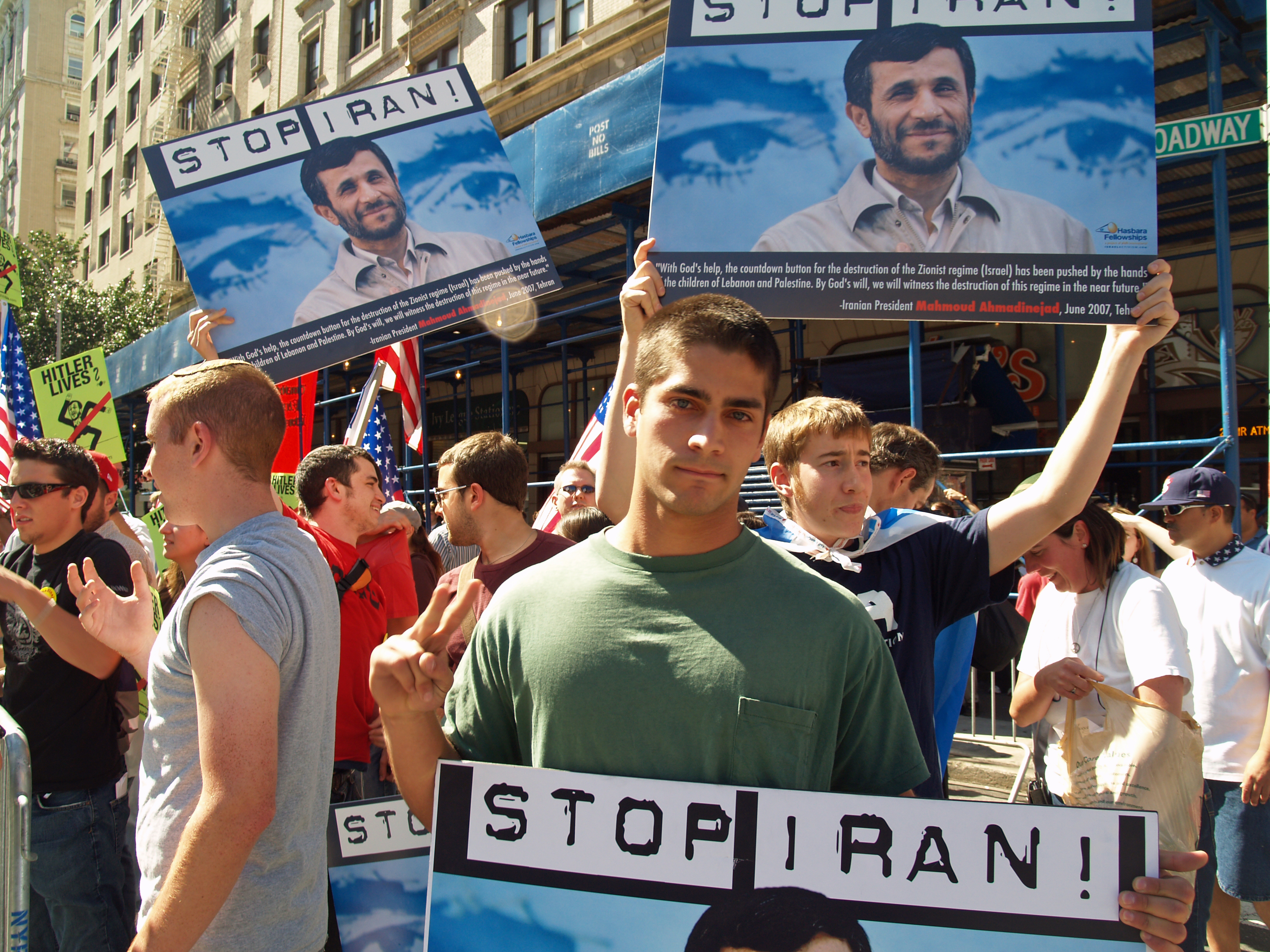 Mahmoud Ahmadinejad at Columbia by David Shankbone